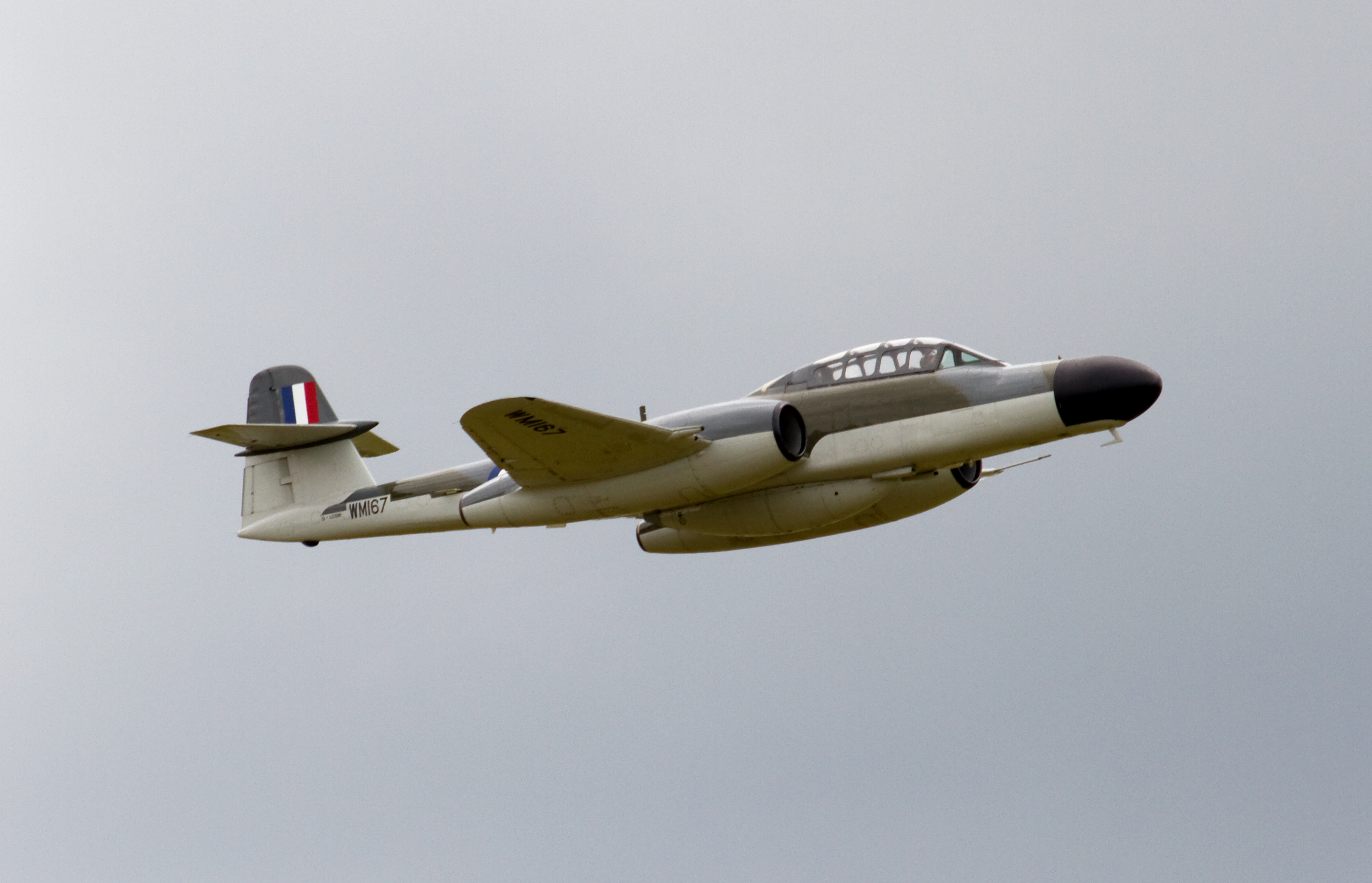 Seen during a short display over Cosford for 'Aero Engine Controls' Family day out. (AEC is a Rolls Royce, Goodrich joint company)